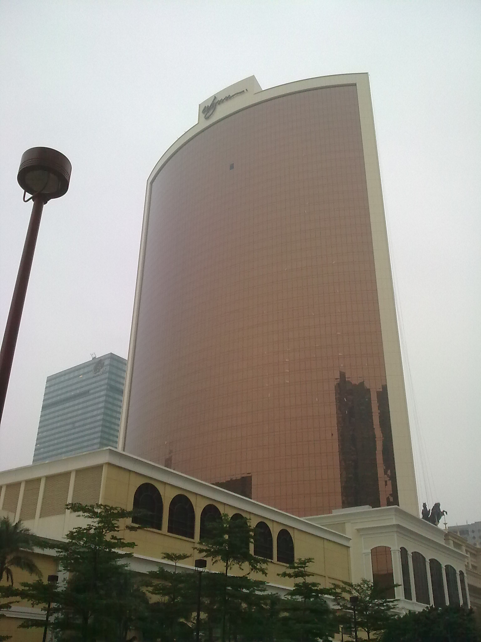 Wynn Encore building at Macau in Nov 2009.